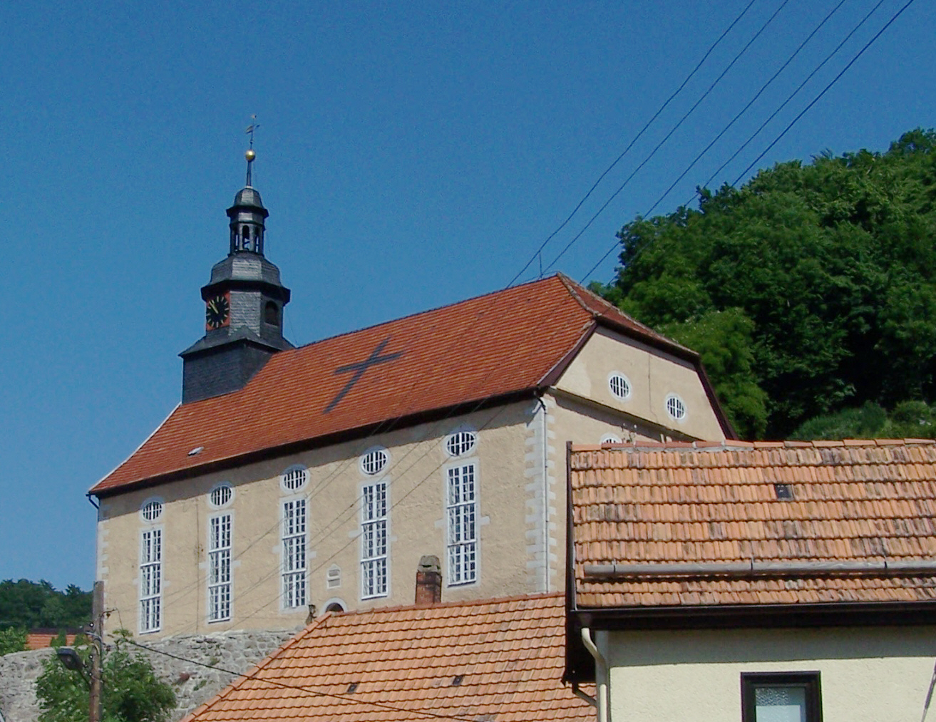 The church in Steinbach.